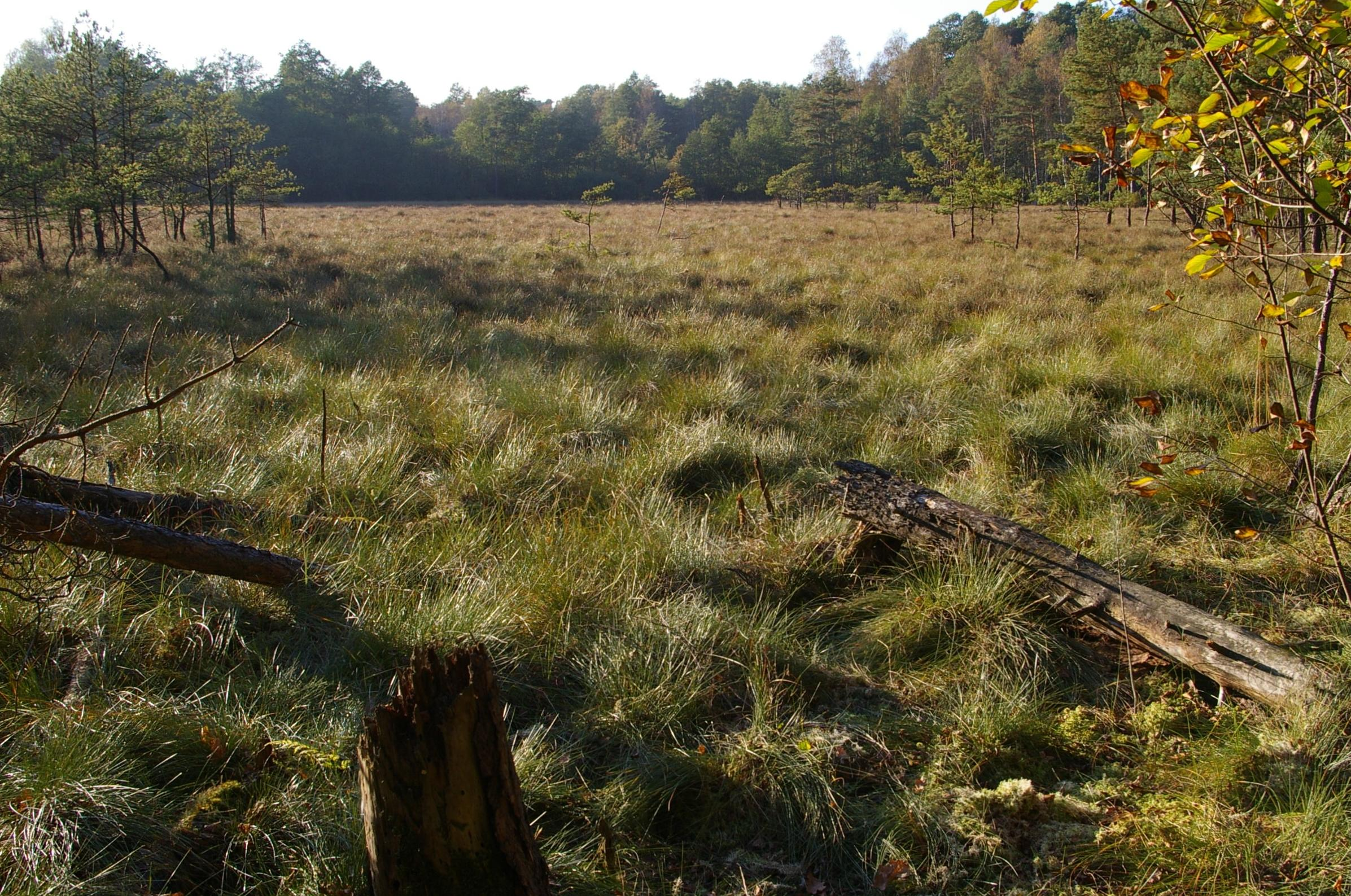 The bog "Maujahn" in Germany. It has been developed in a caving-in over a salt dome.